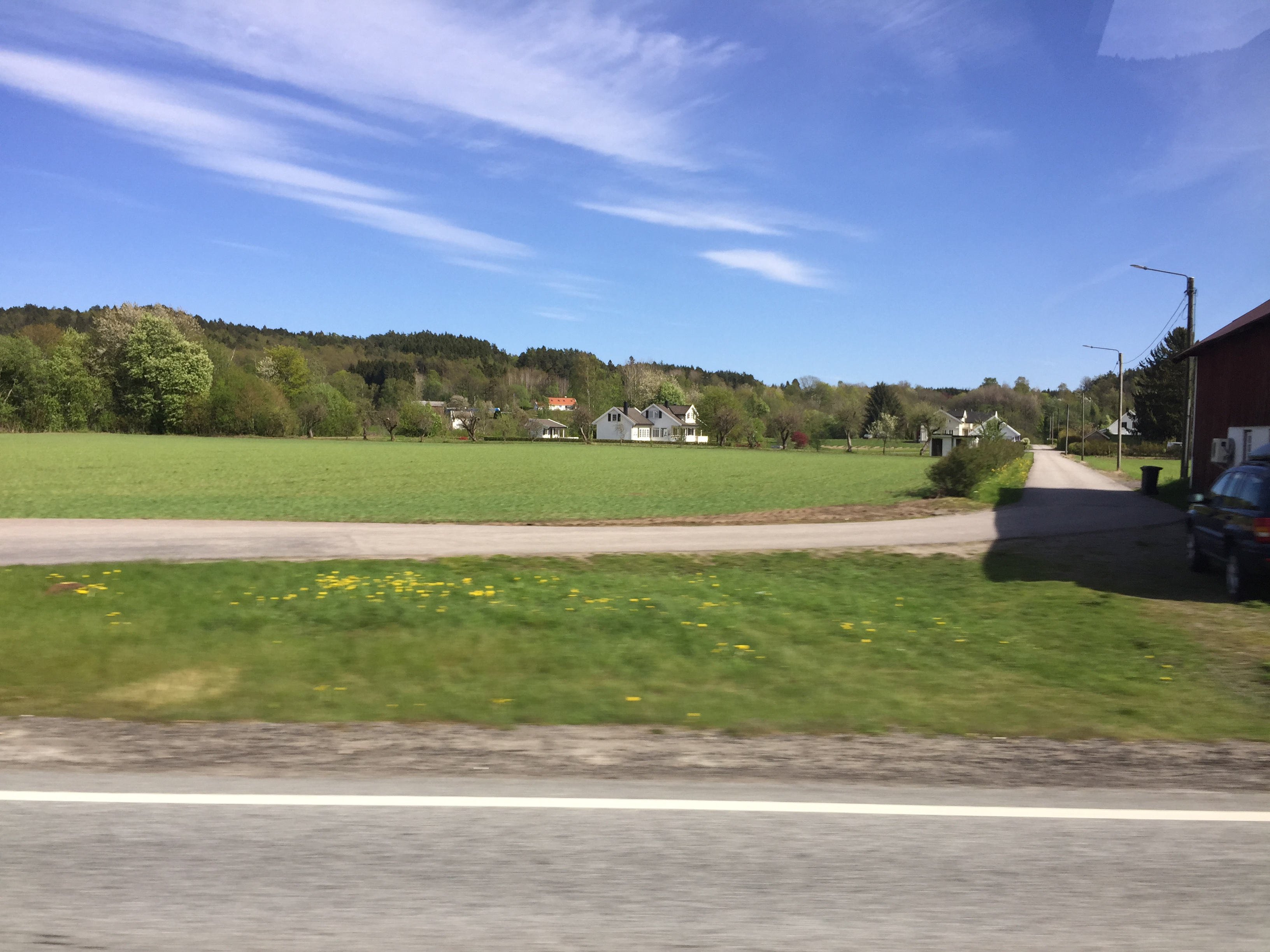 Tveit, Kristiansand